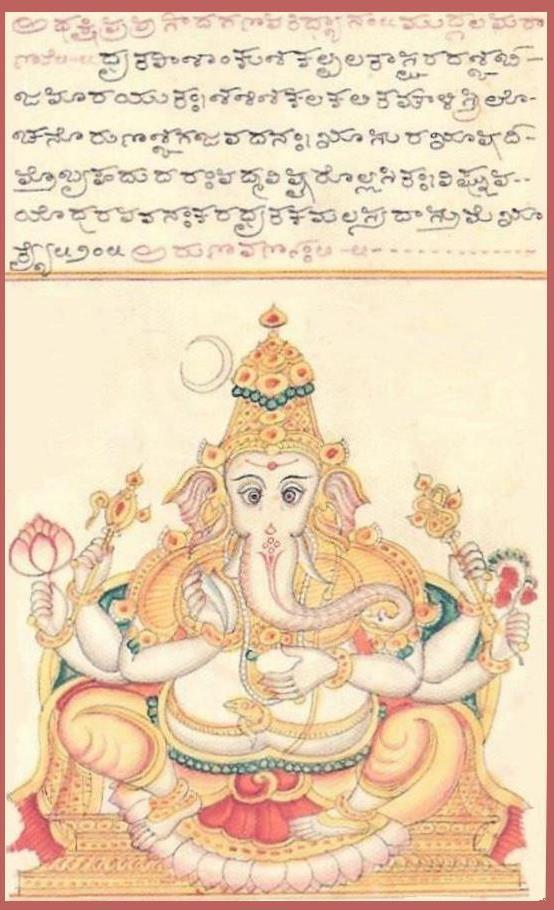 Reproduction from the Śrītattvanidhi ("The Illustrious Treasure of Realities"), an iconographic treatise compiled in the 19th century in Karnataka, India, by order of the then Maharaja of Mysore, Krishnaraja Wodeyar III (b. 1794 - d. 1868).